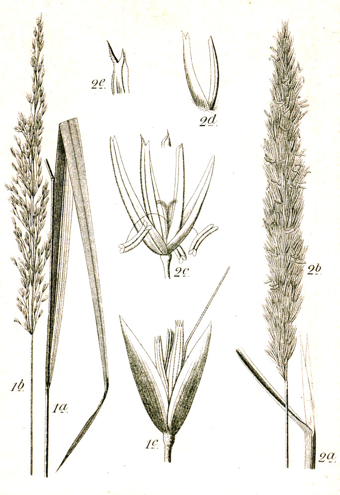 1. Calamagrostis arundinacea Roth 2. Ammophila arenaria (L.) Link Original Caption 1. Waldrohr, Calamagrostis arundinacea Roth. 2. Helmgras, Ammophila arenaria Lk.